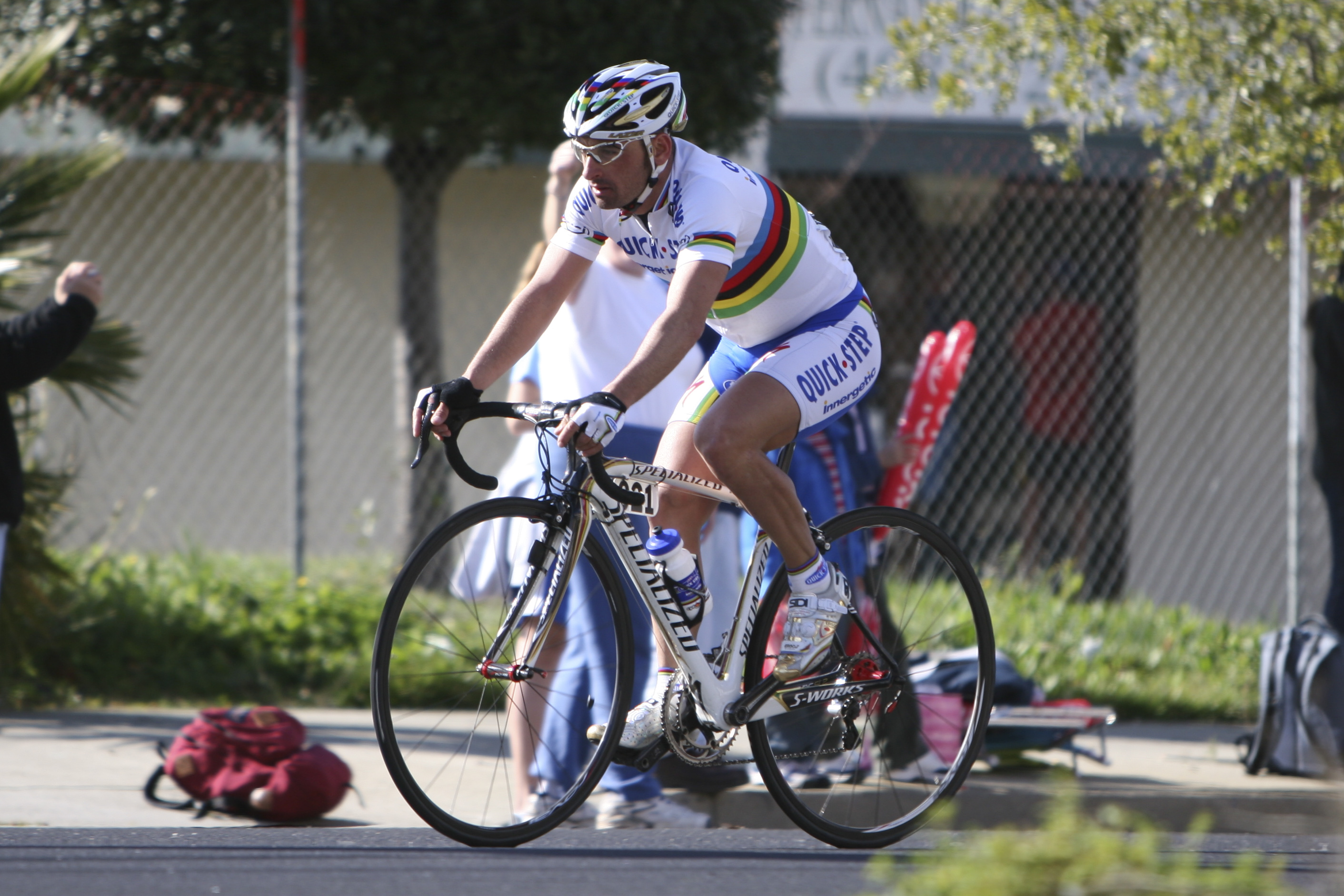 Paolo Bettini. 2008 Tour of California, Stage 3